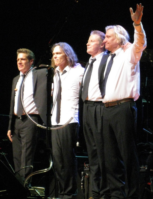 The Eagles. Left to right: Glenn Frey, Timothy B. Schmit, Don Henley and Joe Walsh